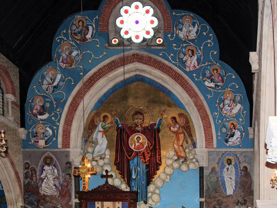 You are faced with this stunning Byzantine icon as soon as you enter the church.